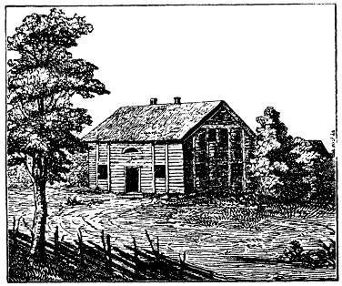 Birth home of Esaias Tegnér